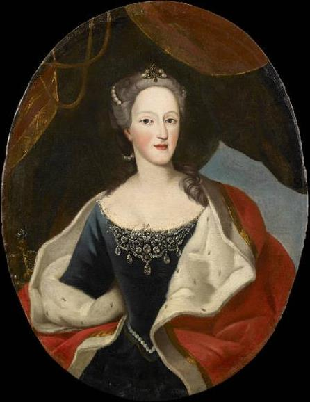 Elisabeth Therese of Lorraine, queen of Sardinia